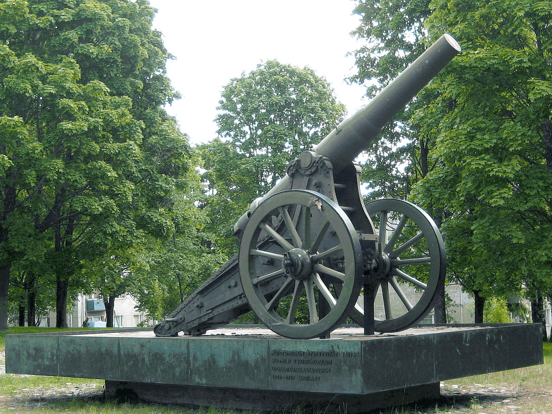 Monument to Artillery School, Lappeenranta, Finland. -A french siege cannon (m. 1877).